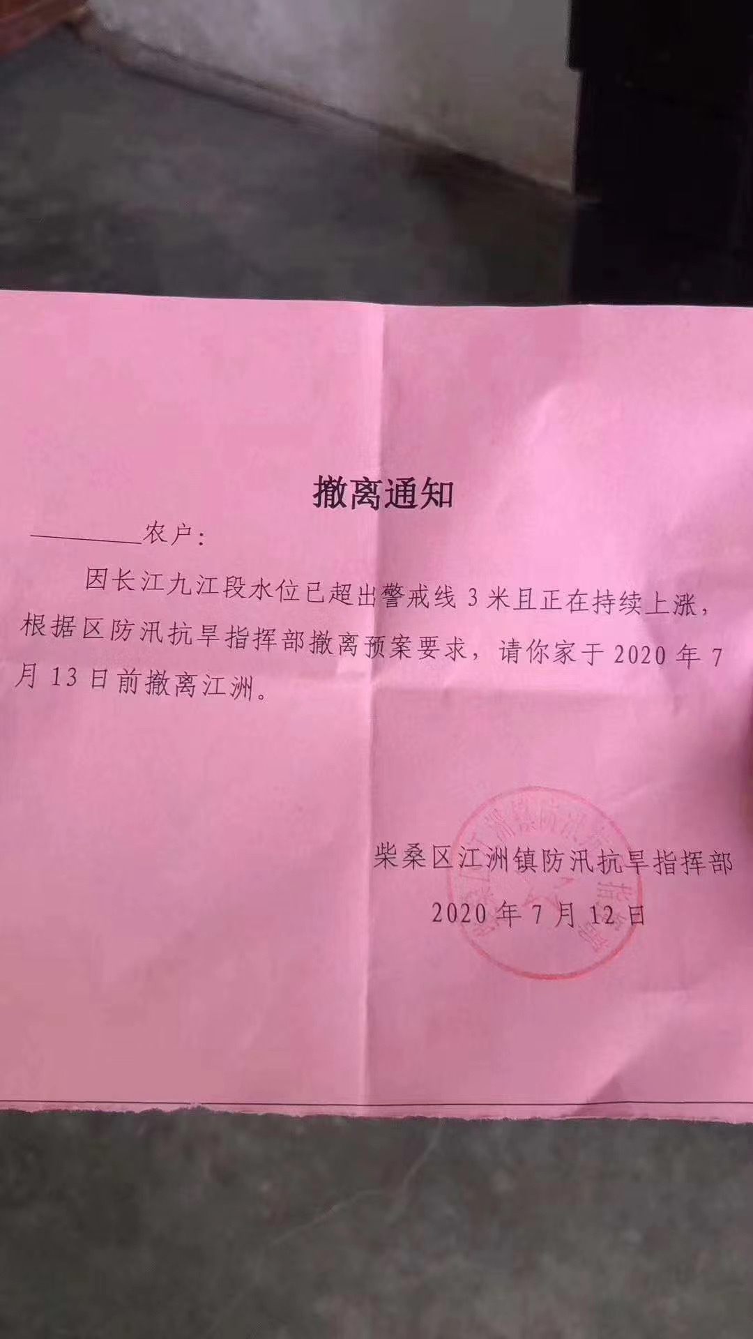 Jiangzhou of Jiujiang flood retreat notice, July 2020